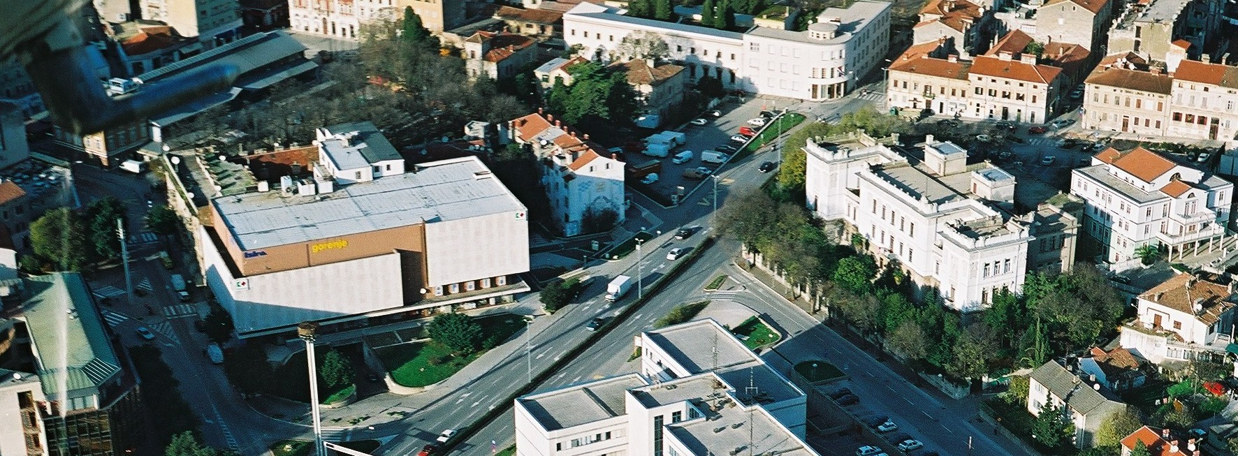 Pula, view from the air